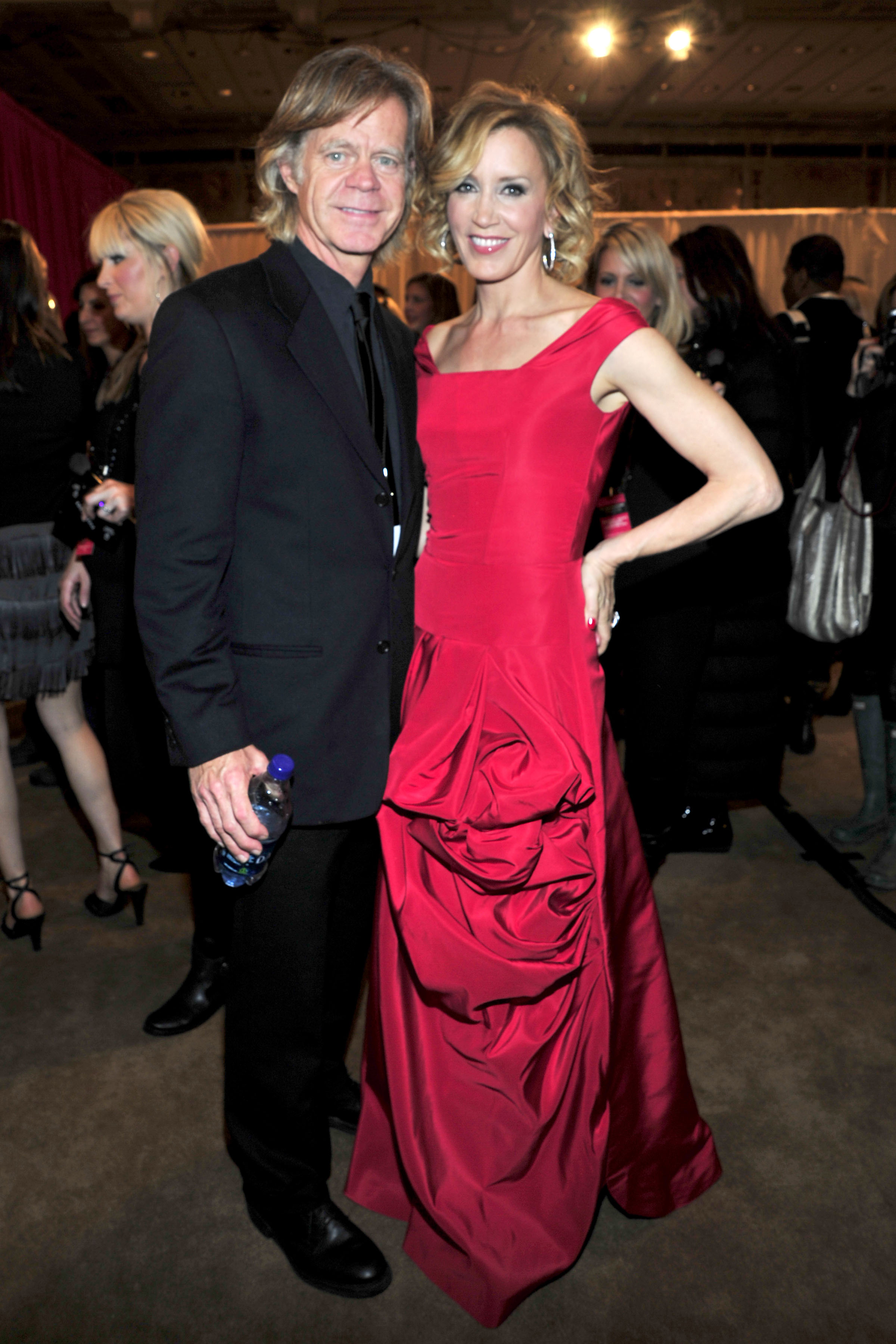 The Heart Truth® is a national awareness campaign for women about heart disease sponsored by the National Heart, Lung, and Blood Institute (NHLBI), part of the National Institutes of Health, U.S. Department of Health and Human Services (HHS). The Red Dress®, introduced by the NHLBI in 2002, is the national symbol for women and heart disease awareness. Visit for information on women and heart disease. William H. Macy, Felicity Huffman. Heart Truth Red Dress 2010 Collection. NY Public Library, NYC ®, TM The Heart Truth, its logo and The Red Dress are trademarks of HHS. Participation by Mercedes-Benz Fashion Week, Diet Coke, Swarovski, Tylenol, St. Joseph's Aspirin, Bobbi Brown, and Brian Atwood does not imply endorsement by HHS.